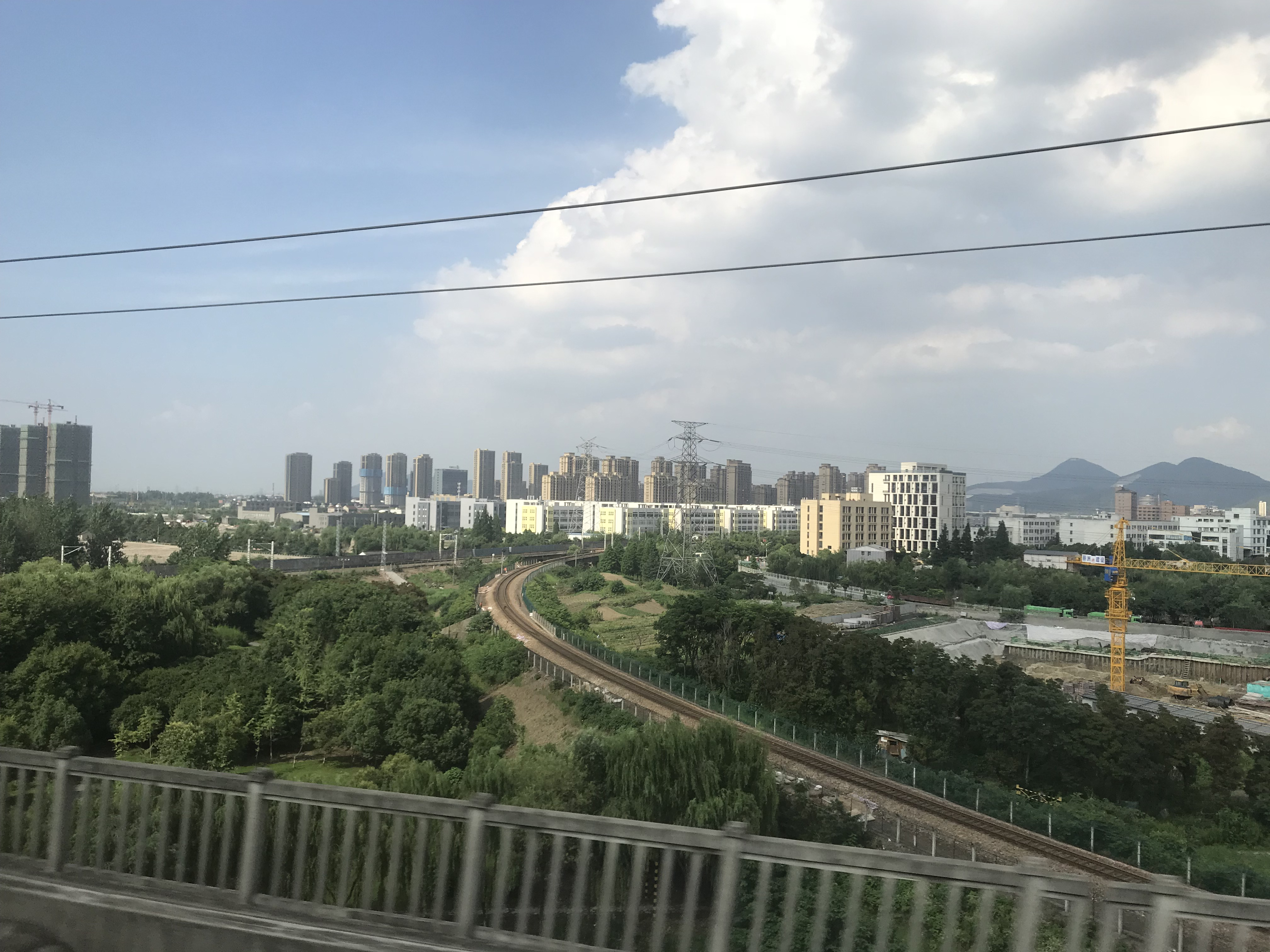 201806 Chongxian, Hangzhou